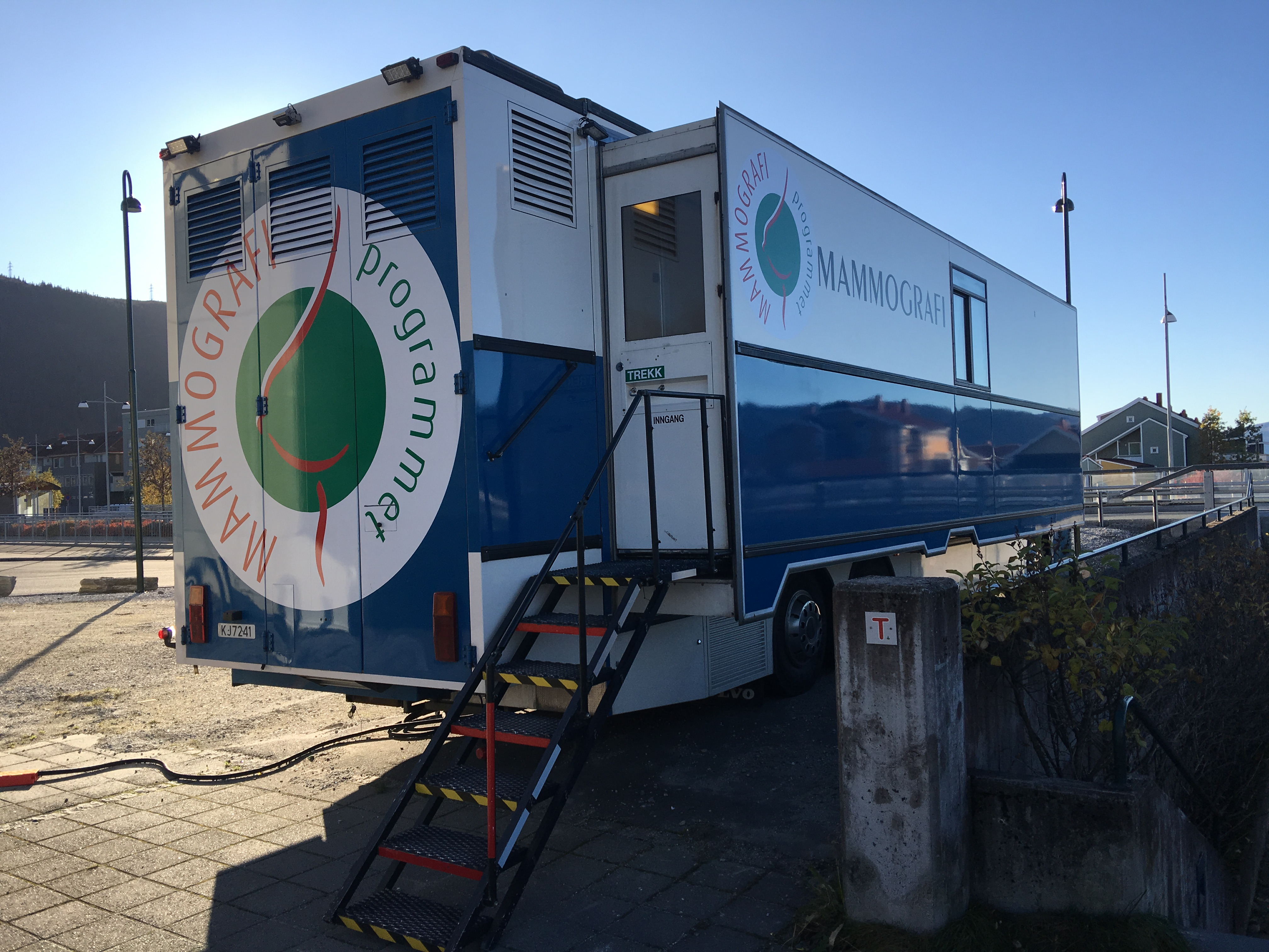 Mobile breast screening unit for Norwegian Mammography Programme (Mammografibussen til Kreftregisteret /Mammografiprogrammet) in Mo i Rana, Norway, 2017-10-09.